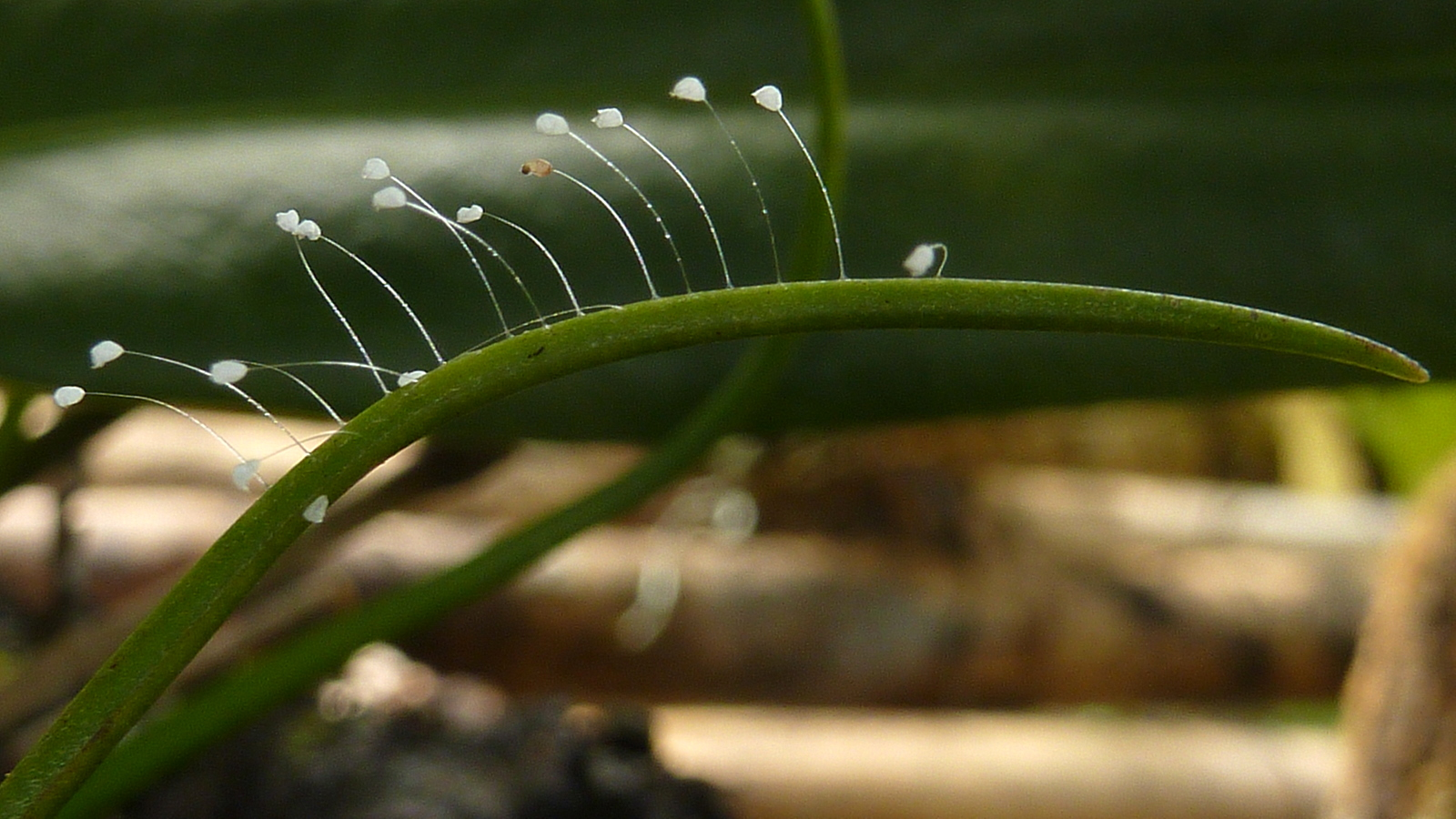 The hatched larvae gone overnight.